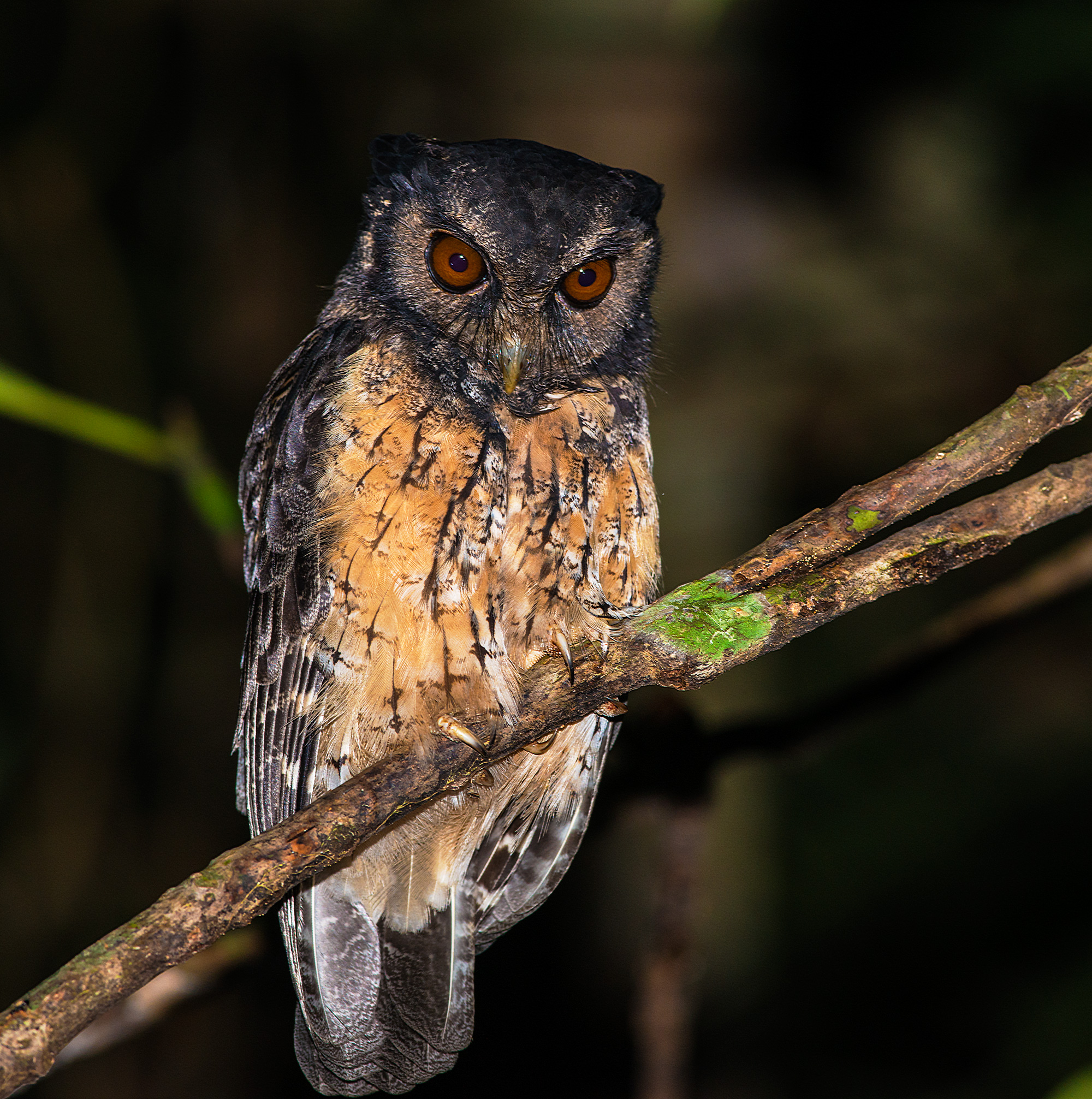 Tawny-bellied Screech Owl (Megascops watsonii)